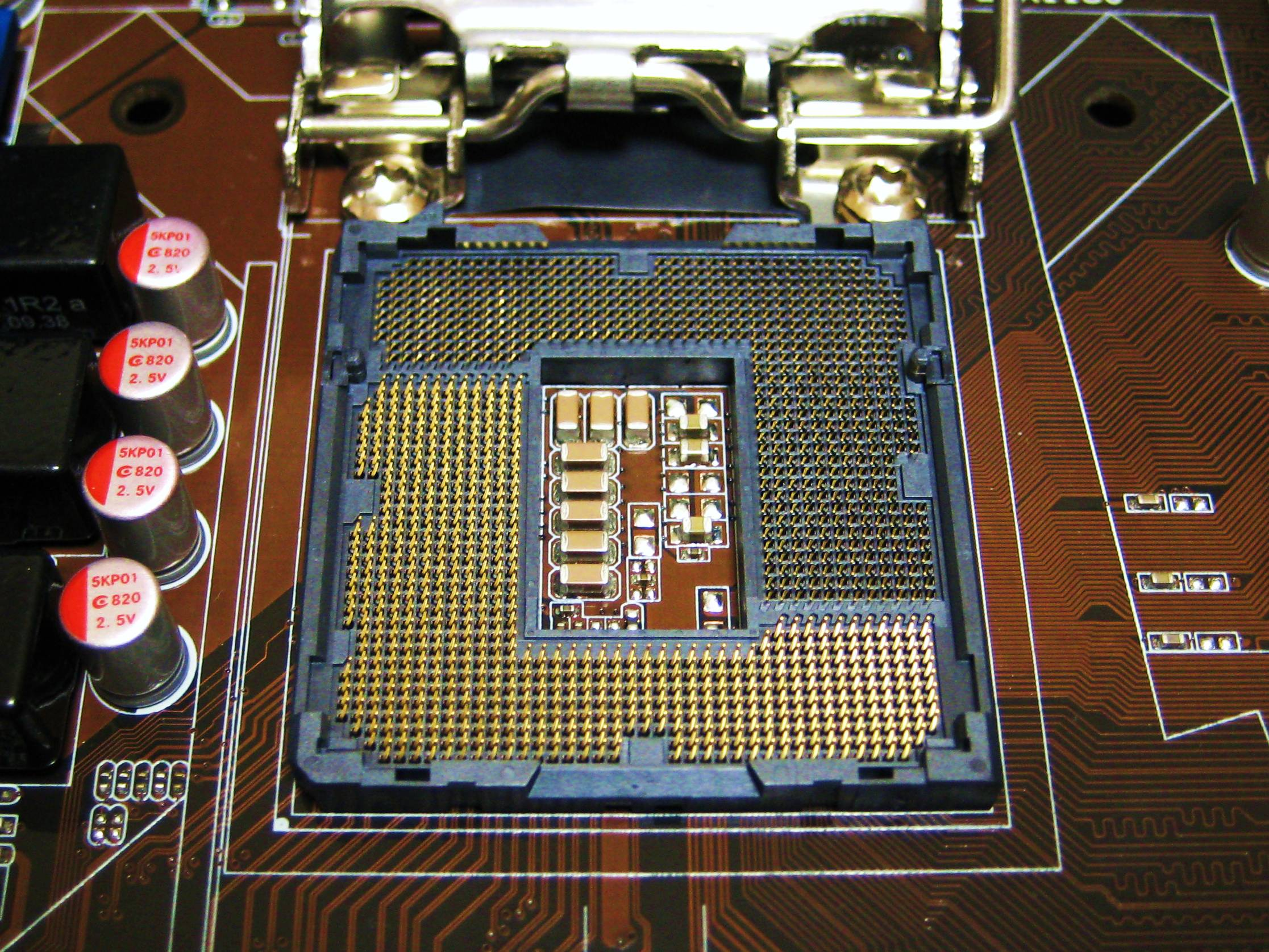 Asus P7P55-M LGA 1156.